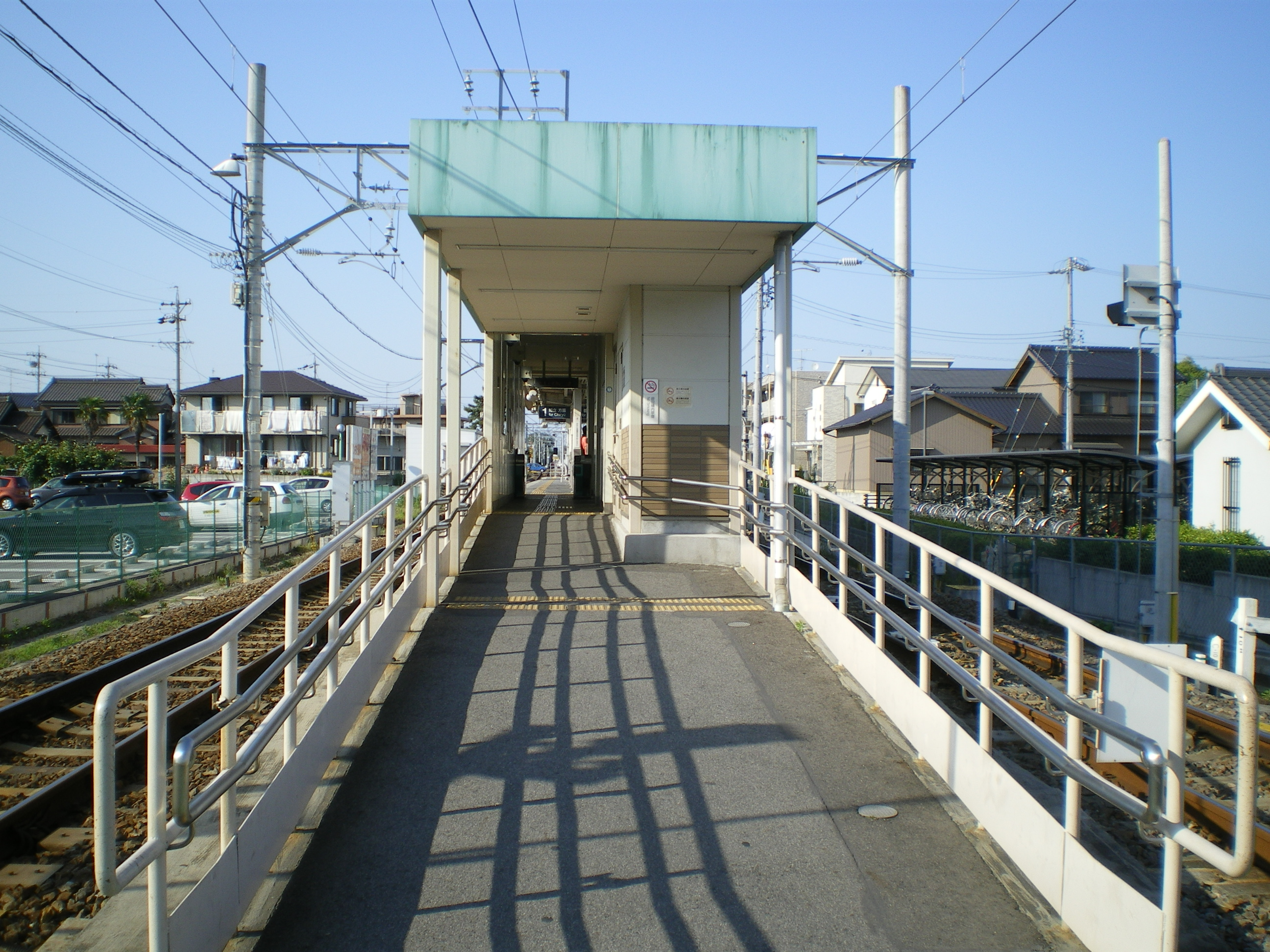 Nagoya Railroad Mikawa Line Ogakie Station Gate